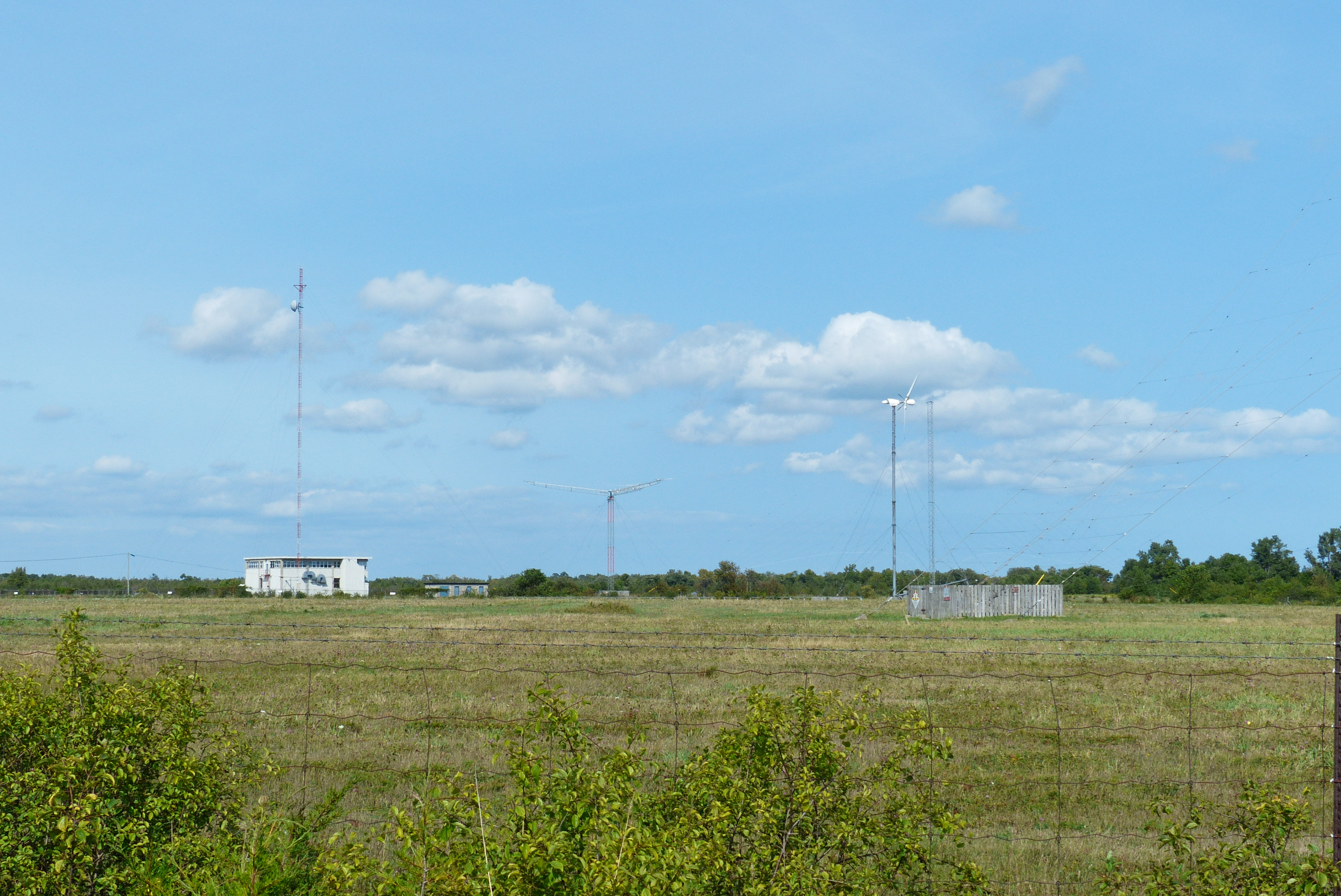 A portion of the transmitter site at Point Petre in Prince Edward County, Ontario, Canada. This site has been used by Department of National Defence for various purposes since the 1930s.